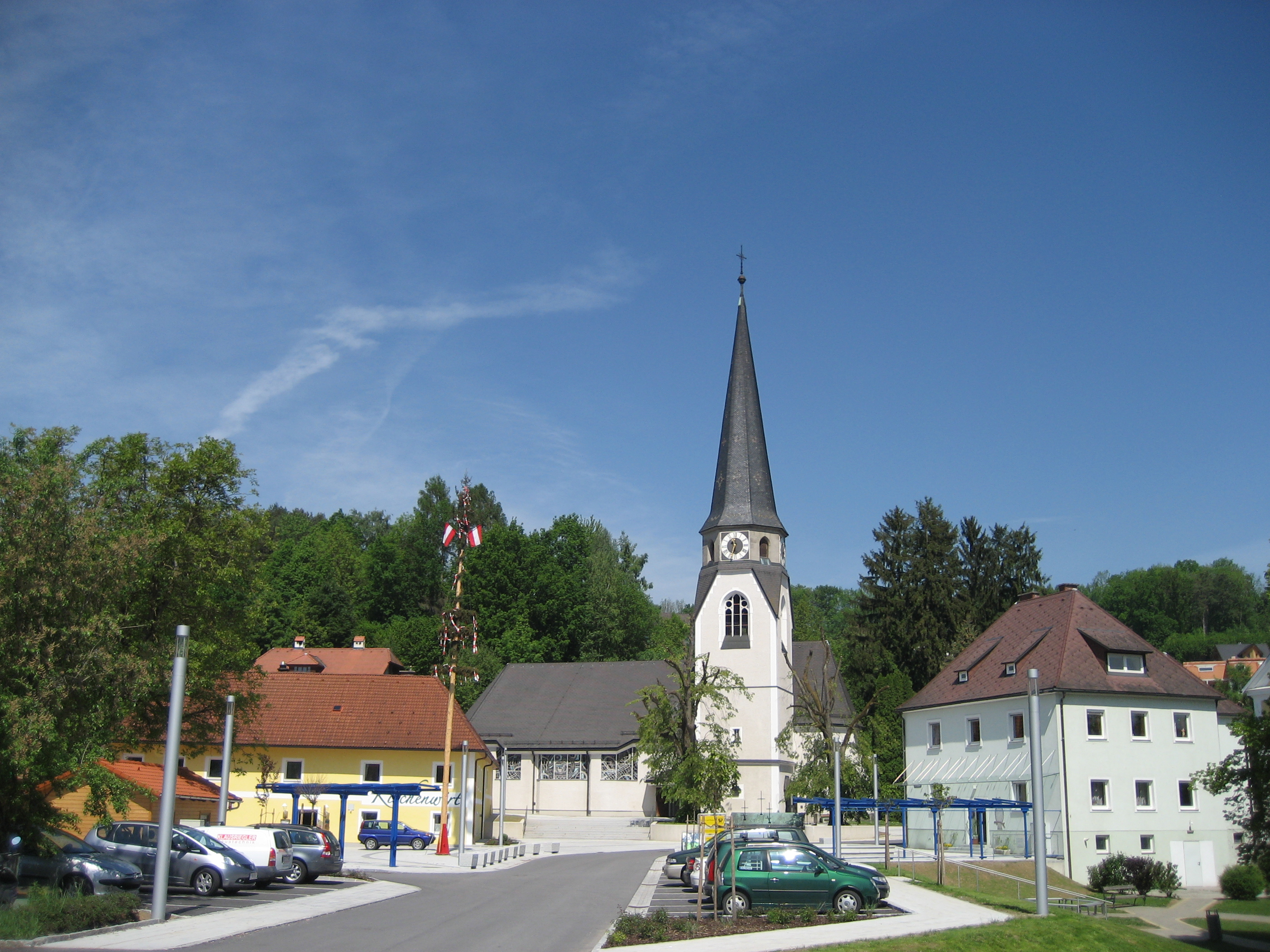 Dietach, a village in Upper Austria, Austria, Europe. Village center and church.